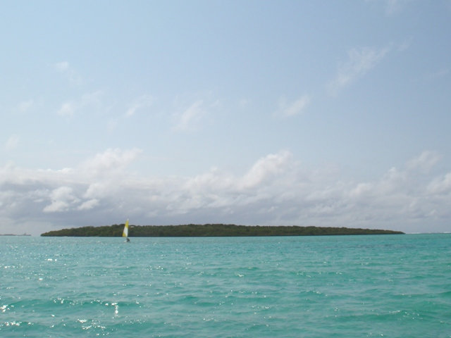 Ile aux Aigrettes Nature Reserve, seen from offshore, Ile aux Aigrettes Nature Reserve.